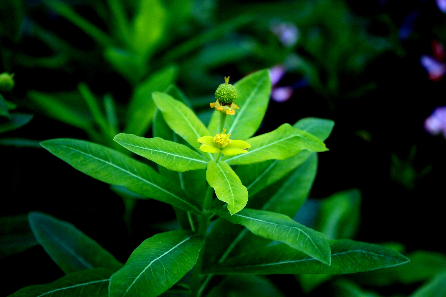 Euphorbia Gibelliana flower